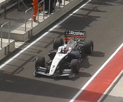 Sirotkin on the pitlane at Moscow Raceway, 22 June 2013